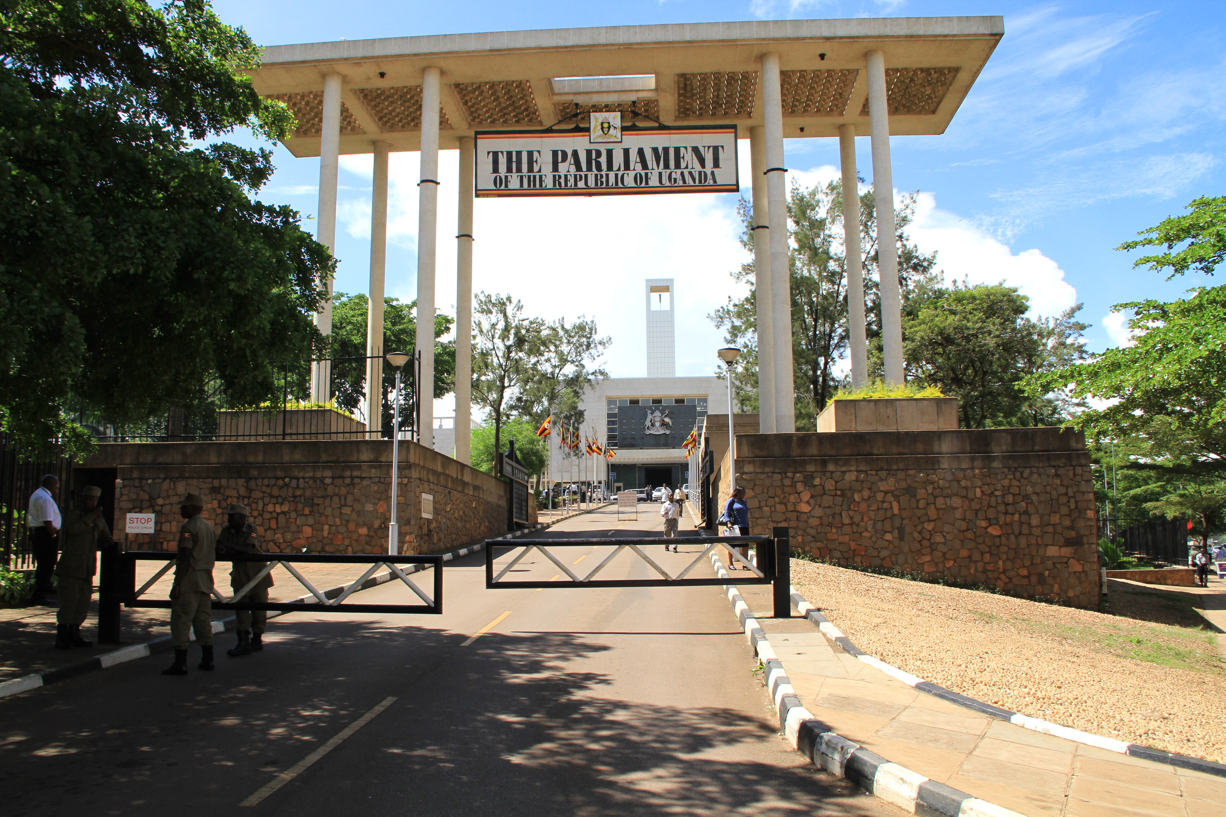 The Parliament of the Republic of Uganda